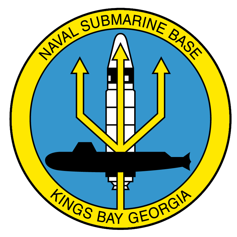 Naval Submarine Base Kings Bay logo